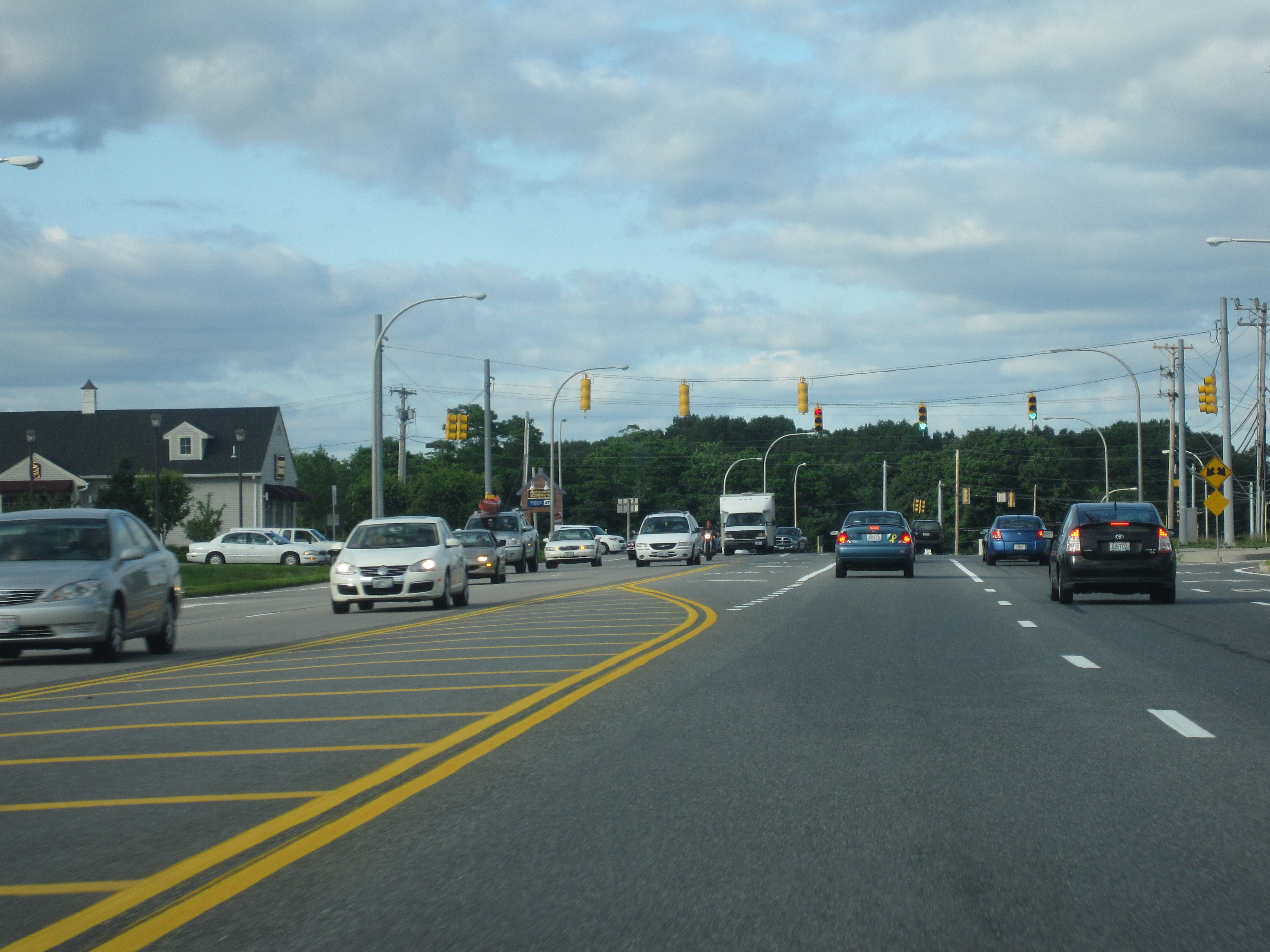 Concurrency of Rhode Island Routes 102 and 2 in a commercial district of Wickford Junction